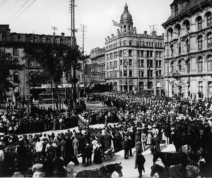 Church parade of 5th Battalion, Victoria Square, Montreal, Canada, probably part of the festivities surrounding Queen Victoria's diamond jubilee. On the same day, a few blocks away in Notre Dame Church, a religious service was held to celebrate and honour the diamond jubilee. The soldiers on parade were among the first generation of Canadian professional soldiers. In 1897, the Canadian army was still in its infancy; British troops had left the country only in 1871.